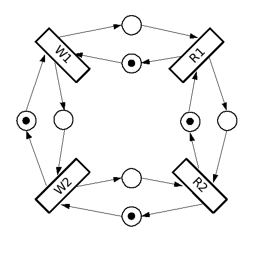 Petri Net that shows how double buffering works.